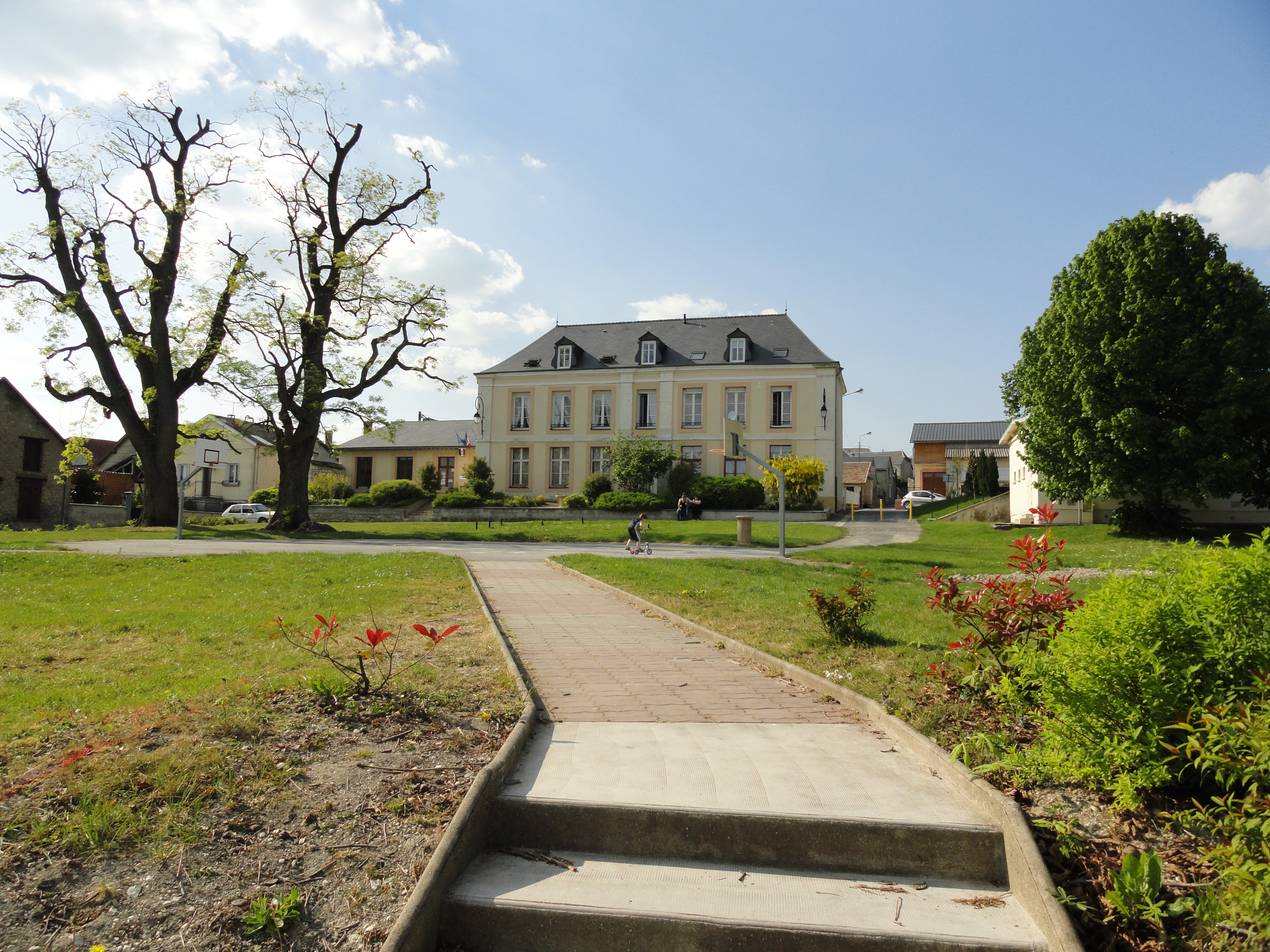 Town Hall of Gomont, Ardennes